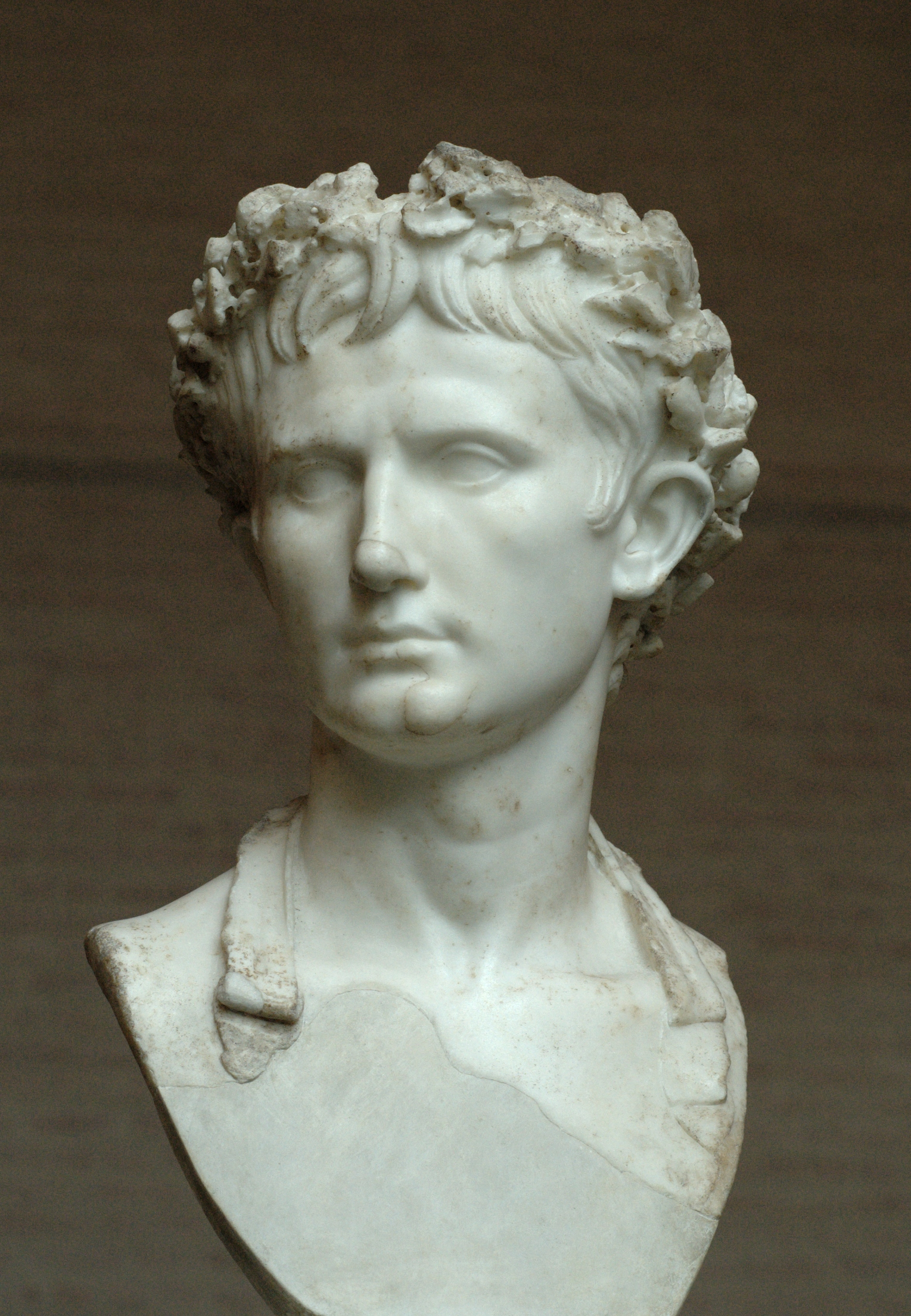 So called “Augustus Bevilacqua”. Bust of the emperor with the Civic Crown, period of his reign.